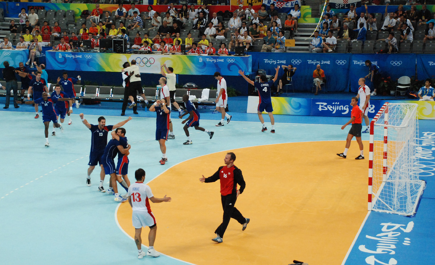 French handball team celebrates his victory against Croatia 25-23 in the Beijing olympic tournament semi-final, august 22nd 2008